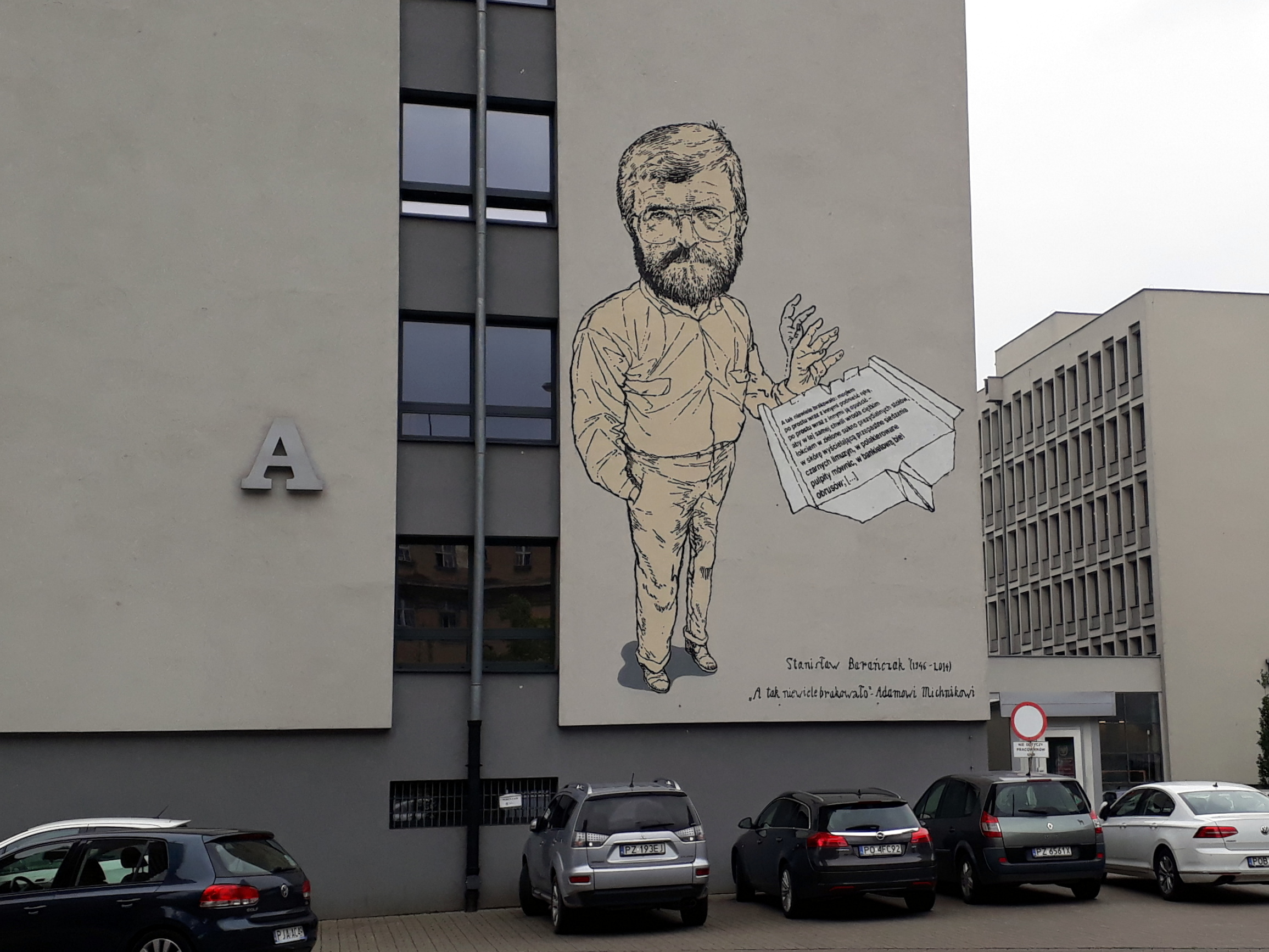 Poznań, Poland